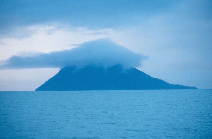 Kayak Island - Cape St. Elias Uploaded to en.wikipedia on 15:03, 9 December 2005 by User:Darwinek.